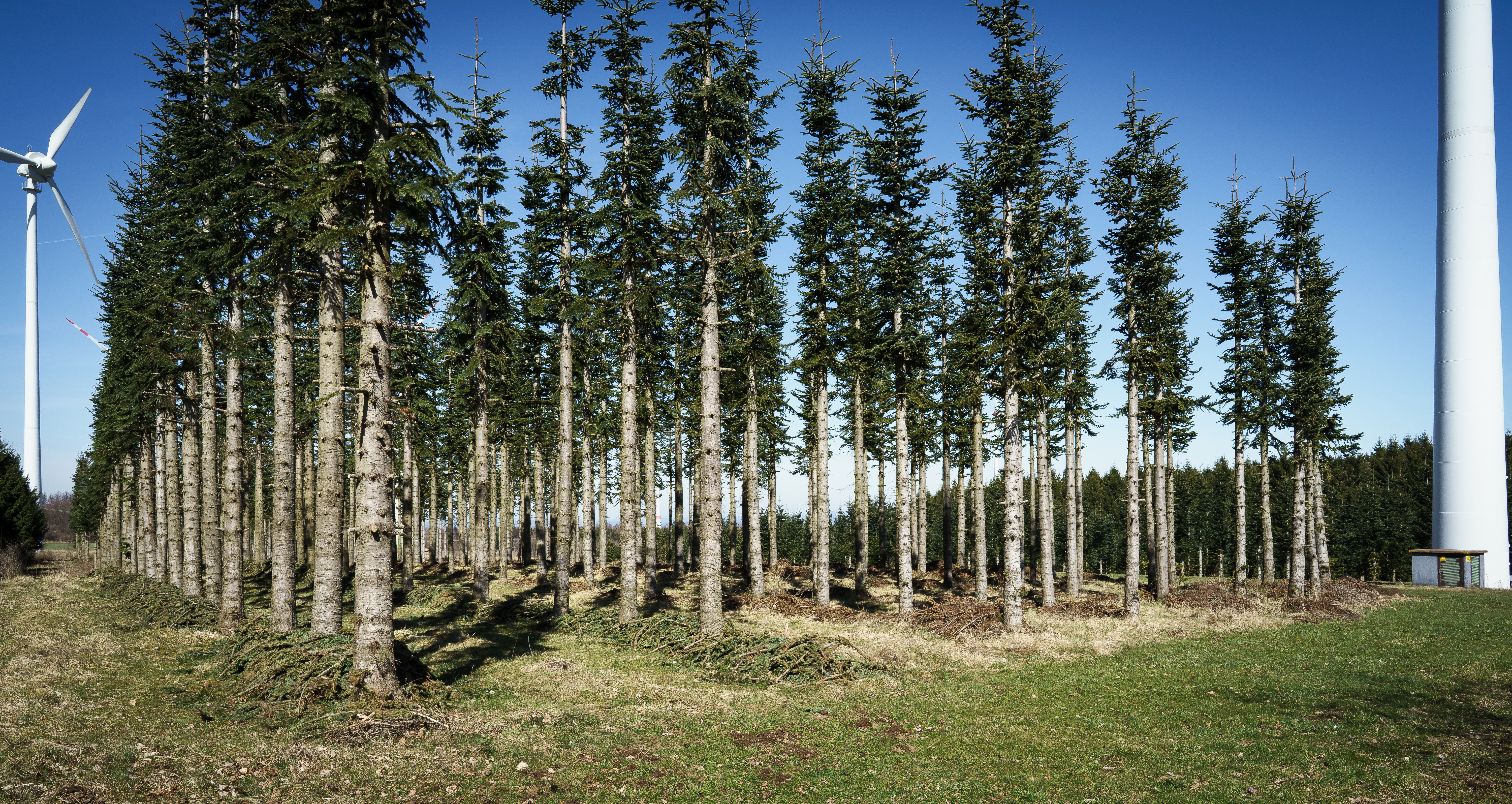 Exploitation of evergreen bough at the Golden Steinrueck, Vogelsberg